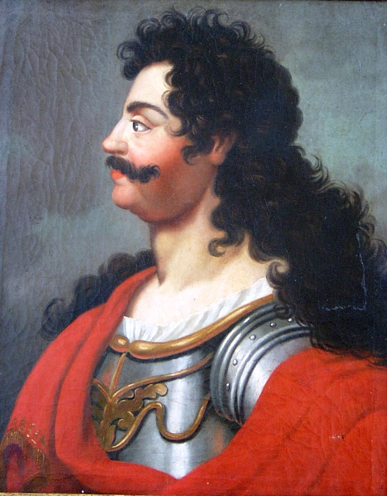 Francis II Rákóczi